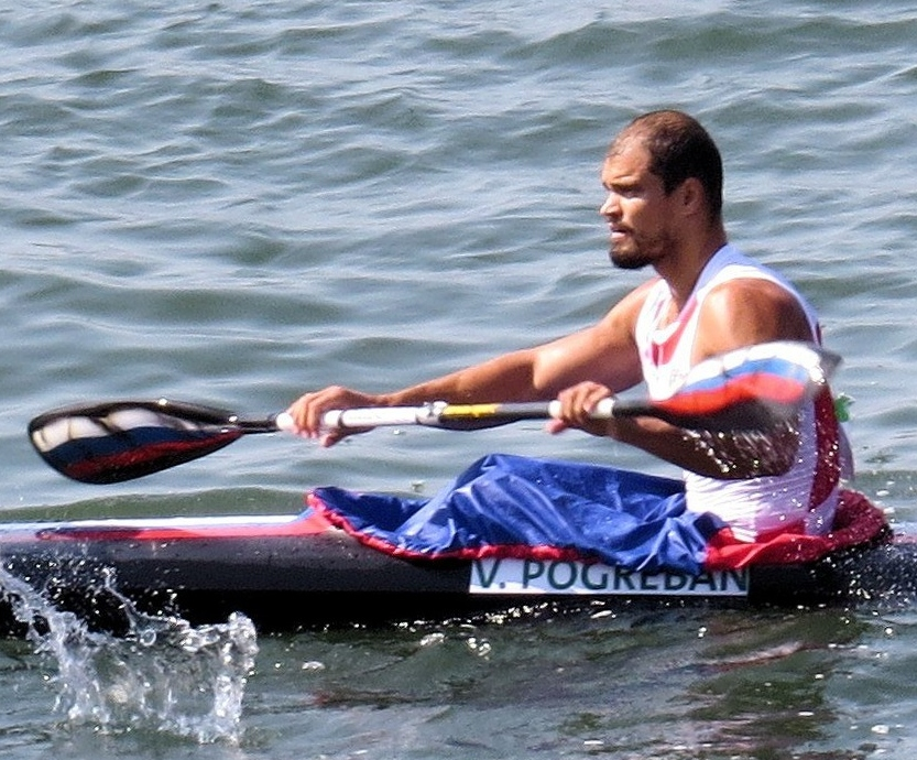 Canoeing at the 2016 Summer Olympics – Men's K-4 1000 metres